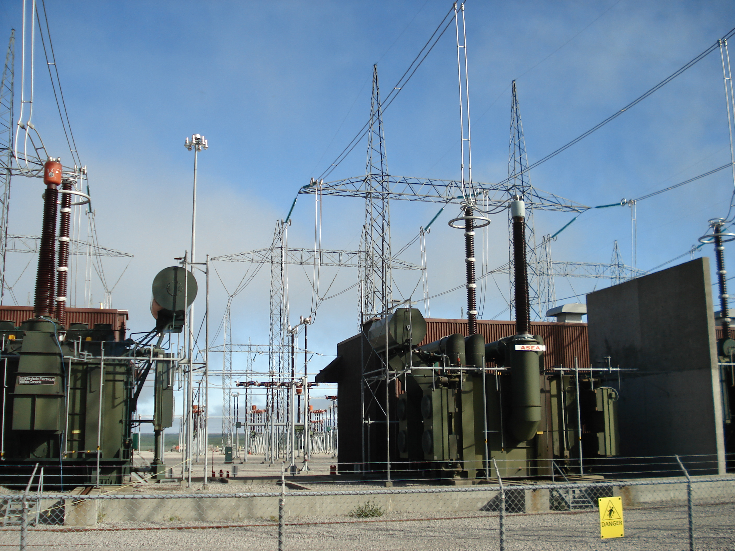 Transformers at Robert-Bourassa generating station (LG-2) in northern Quebec.